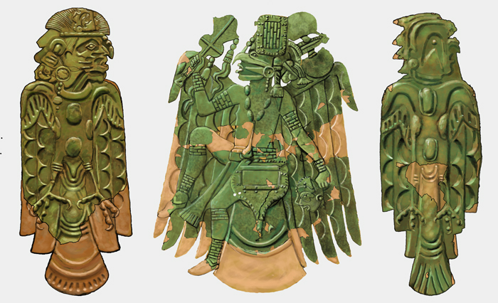 Three examples of Mississippian culture avian themed repoussé copper plates. The righthand figure is one of the Spiro plates from Spiro Mounds in Oklahoma. The left hand figure is Wulfing plate A, one of Wulfing cache from Malden, Missouri. The middle plate is Rogan plate 1, from Etowah Mounds in Georgia. Examples of this type of artwork have been found as artifacts in many states throughout the Midwest and Southeast.